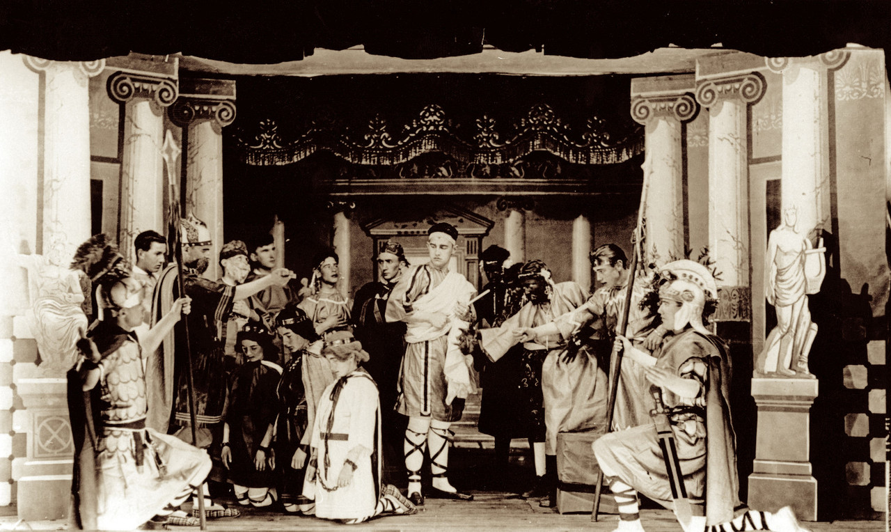 Presentation of the play Les chrétiens aux lions at the Sacred Heart College in Bathurst, 1930.